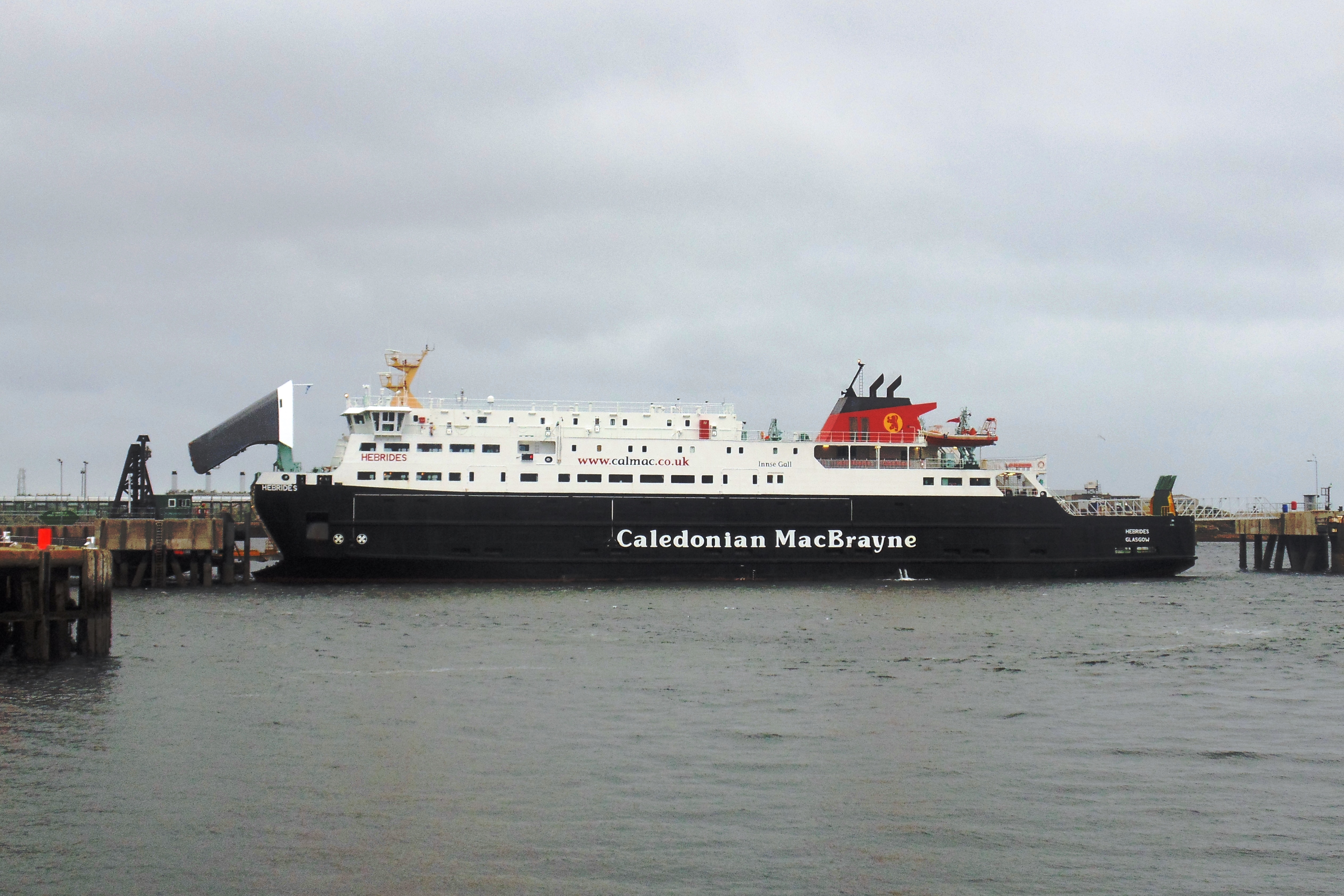 The CalMac flagship berthed at Lewis's main terminal, whilst relieving the Stornoway to Ullapool service for the broken down Isle of Lewis.